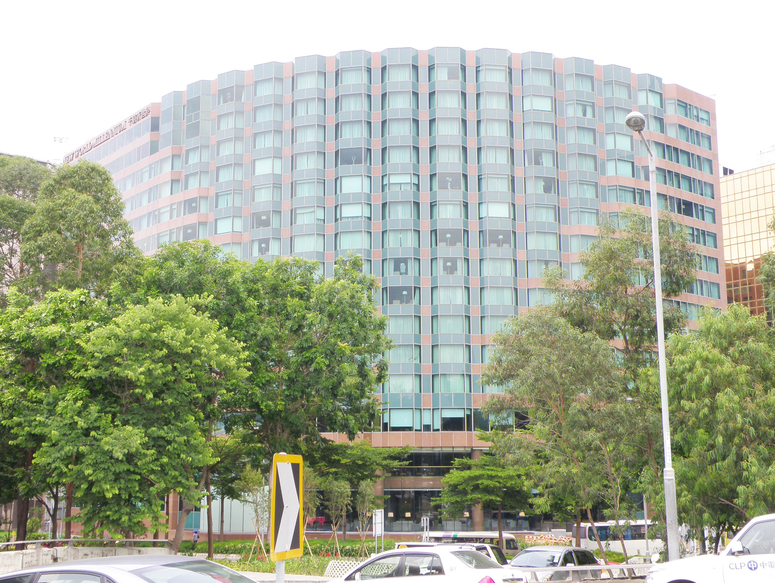 New World Millennium Hong Kong Hotel in Tsim Sha Tsui, Hong Kong.